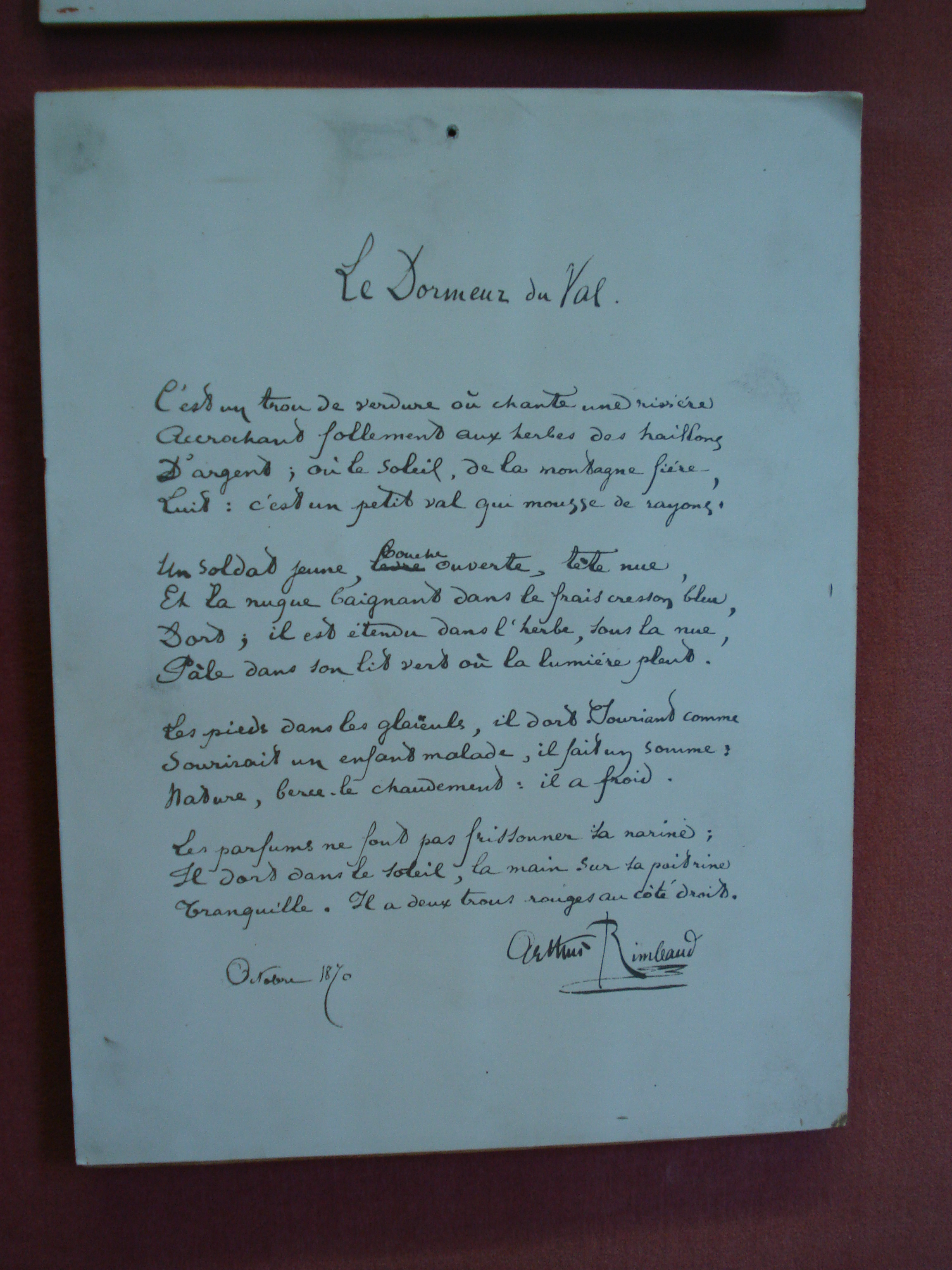 Photo manuscrit Le dormeur du Val, poème de Rimbaud (octobre 1870).